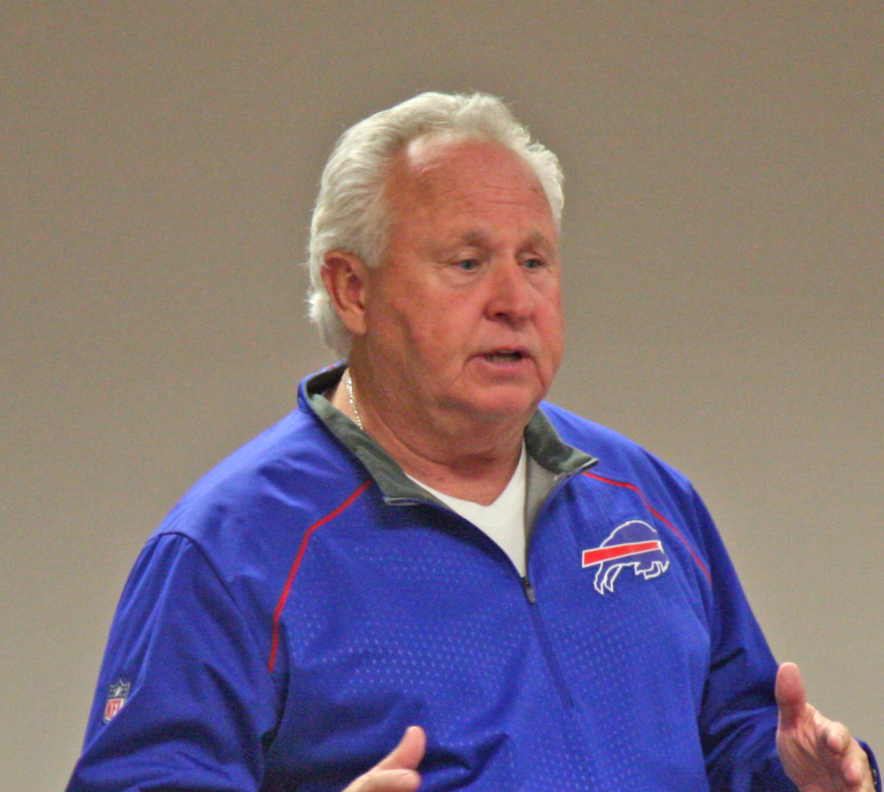 Bills Quarterback Consultant Joe Dickinson speaking at a camp in December 2015.